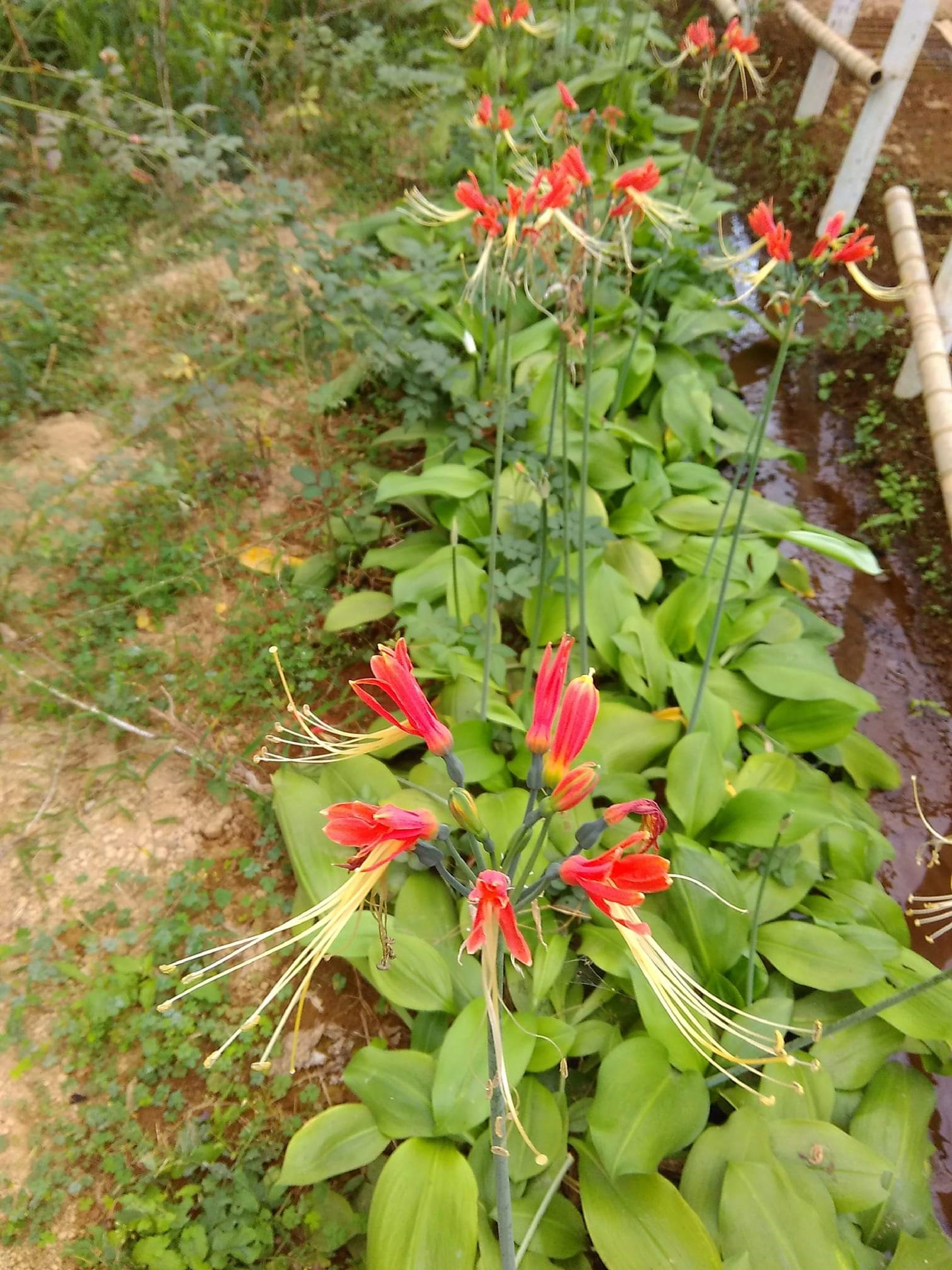 Eucrosia